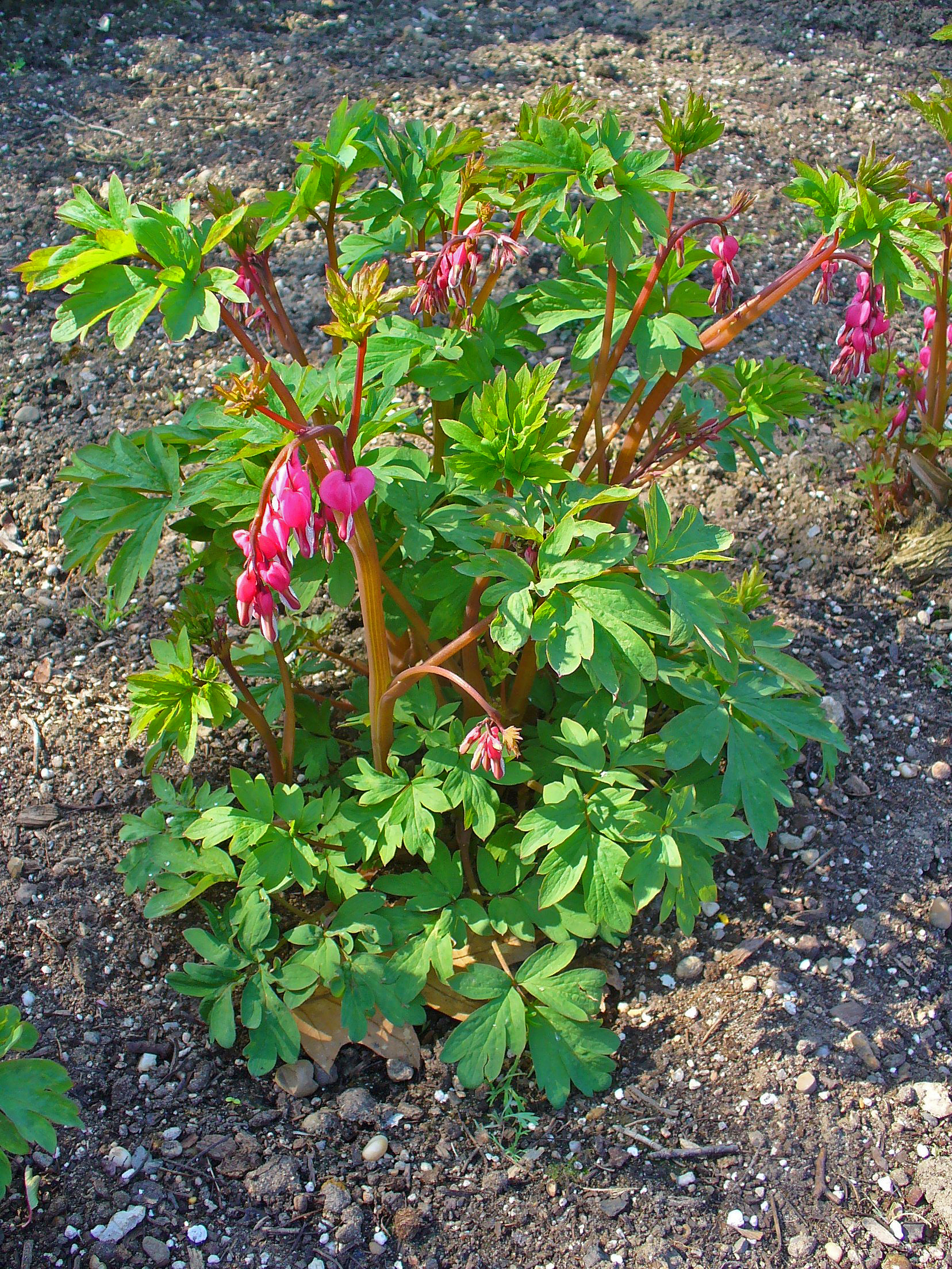 Lamprocapnos spectabilis, Papaveraceae, Venus's Car, Bleeding Heart, Dutchman's Trousers, Lyre Flower, habitus; Botanical Garden KIT, Karlsruhe, Germany. The plant is used in homeopathy as remedy: Dicentra spectabilis (Dice-s.)